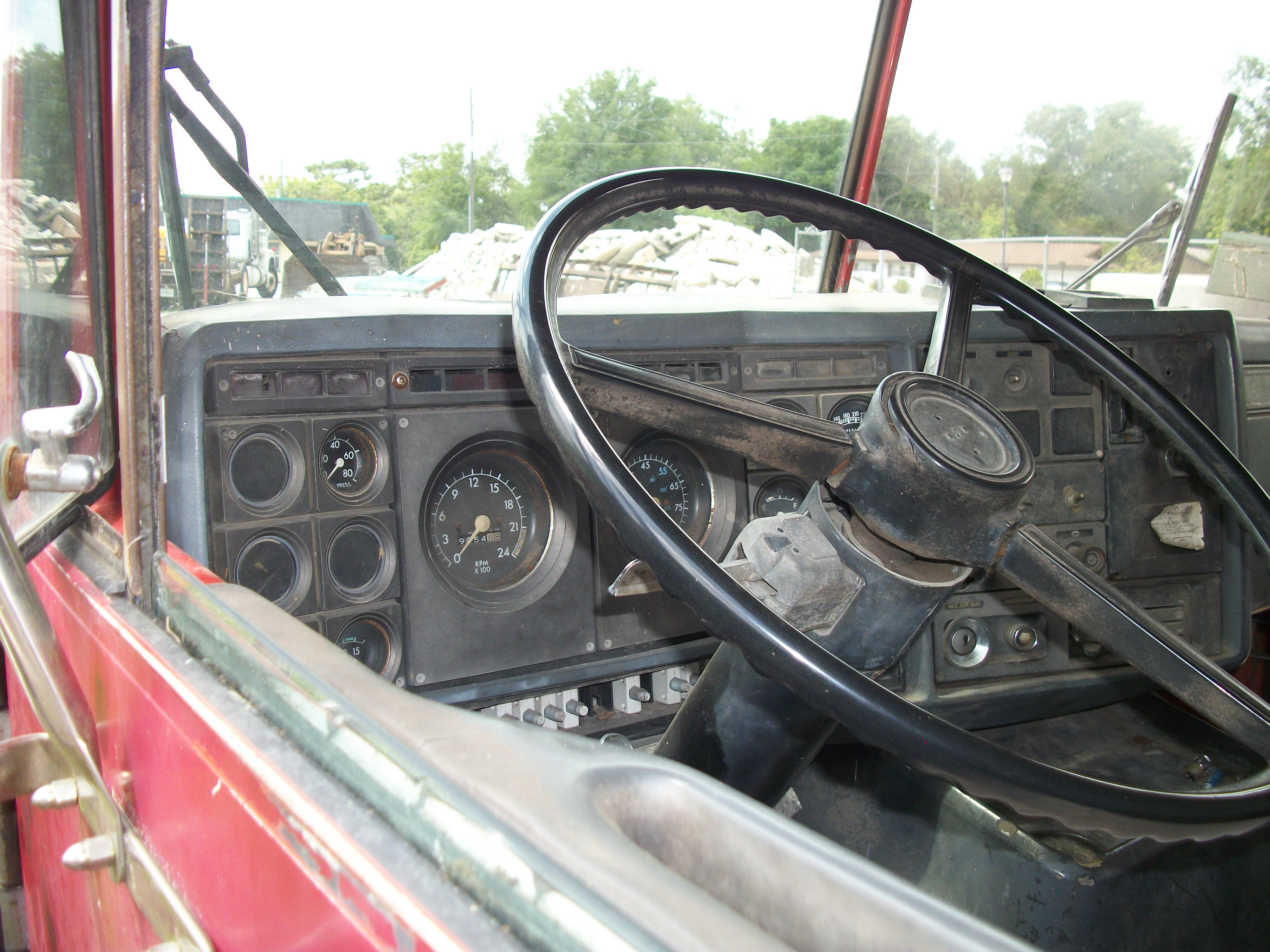 Driver's side dashboard of a 1984 GMC General dump truck in Ridge Manor West, Florida. GMC Generals and Chevrolet Bisons were made between the late-1970's and mid-1980's as part of an attempt to compete with trucks like Kenworth, Peterbilt, White-Freightliner, etc., in the heavy-duty truck market.